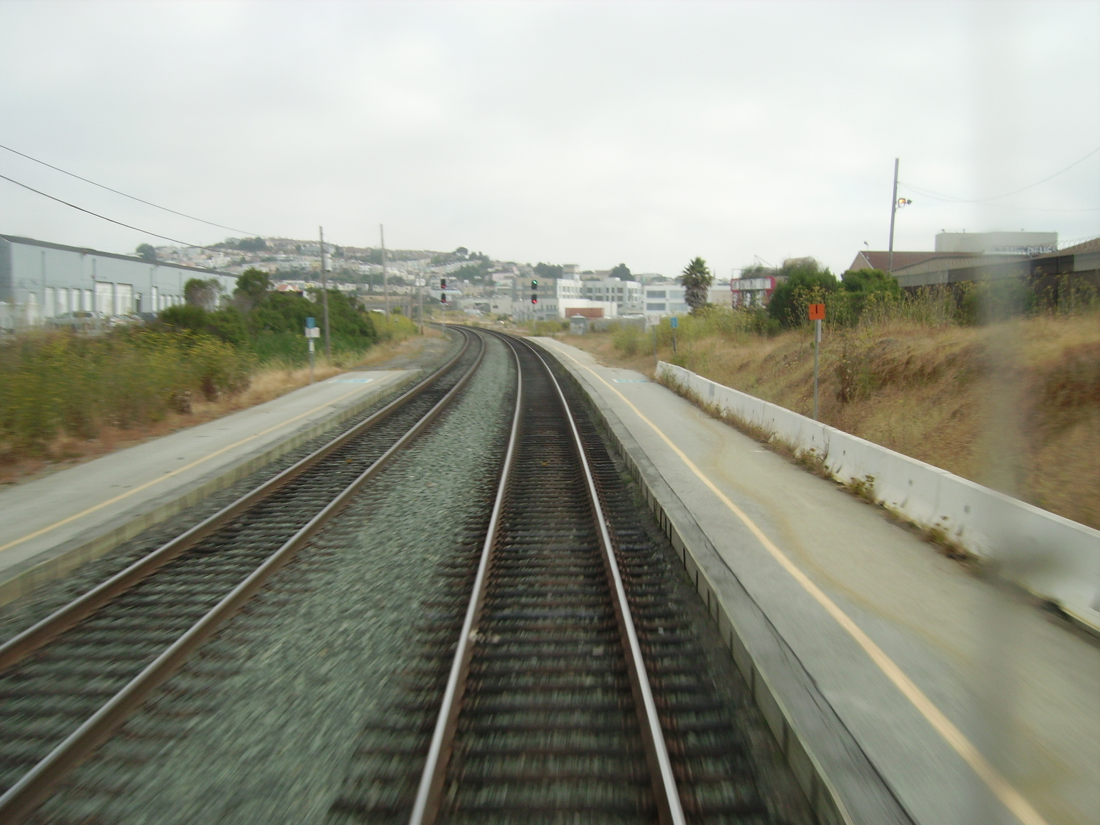 Paul Avenue station in July 2005, one month before it was closed